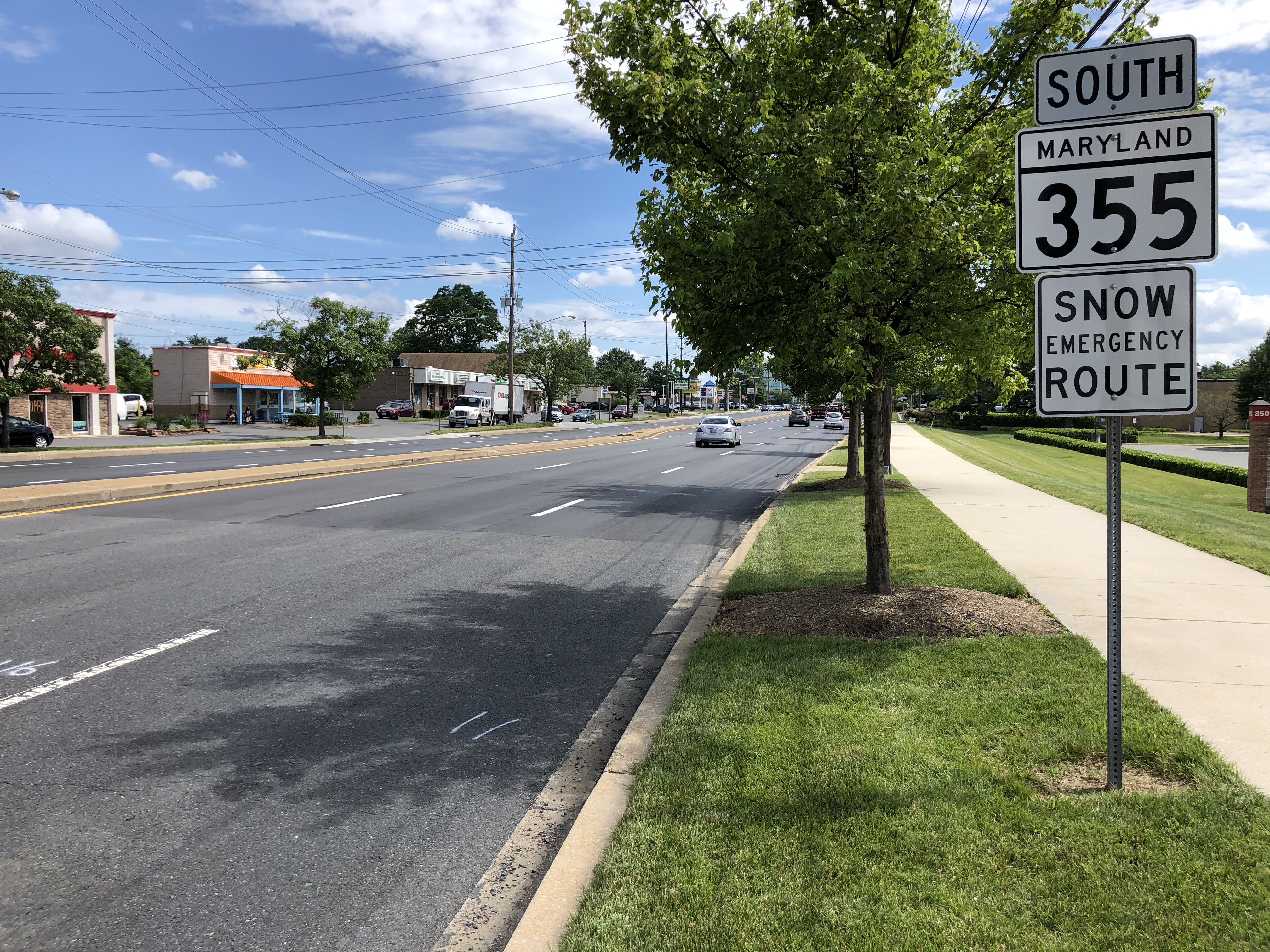 View south along Maryland State Route 355 (Hungerford Drive) at Mannakee Lane in Rockville, Montgomery County, Maryland